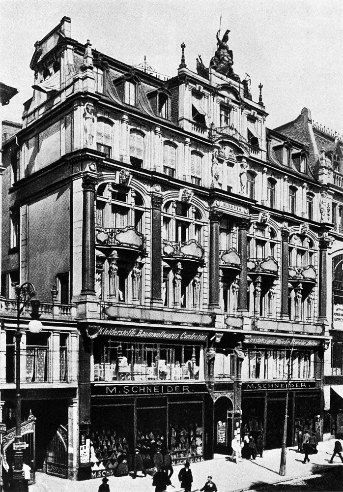 Frankfurt on the Main: House Minerva at the Zeil, to the left the Weidengaesschen (Little willow alleyway)